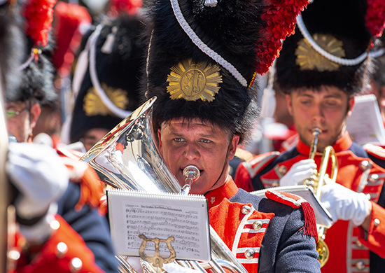 Старые гренадеры Женевы» снова посетят Москву в рамках выступления на фестивале «Спасская башня»